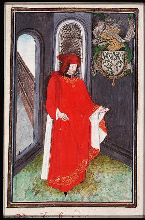 Statuts, Ordonnances et Armorial de l'Ordre de la Toison d'Or (Statutes, Ordonnances and armorial of the Order of the Golden Fleece) Place of origin, date: Southern Netherlands; 1473. Added sections: Southern Netherlands; 1478 or shortly after and 1491 or shortly after Material: Vellum, ff. 86, 249x187 (167x106) mm, 23 lines, littera cursiva (lettre bourguignonne). French. Binding: 18th-century brown leather Decoration: 1 full-page miniature (170x115 mm) with border decoration; 92 miniatures (185/155x120/100 mm); 1 historiated initial (80x90 mm) with border decoration; decorated initials with border decoration (ff., Added section: miniatures ; 4 drawings for miniatures (not finished) Provenance: Presented in 1473 by Gilles Gobet, King of Arms of the Order of the Golden Fleece, to Charles the Bold, Duke of Burgundy and the other Knights during the Chapter of the Order held at Valenciennes; Treasure of the Golden Fleece, Brussls; taken away by the Treasurer C.-F. Humyn (d. 1735) or his daughter C.Ch. de Corte; by legacy to her daughter M.-L. de Corte, wife of Ph.-E. de Poederlé; purchased in 1781 at the Poederlé sale by G.-J- Gérard of Brussels; acquired in 1832 as part of the Gérard collection (no. A 27)